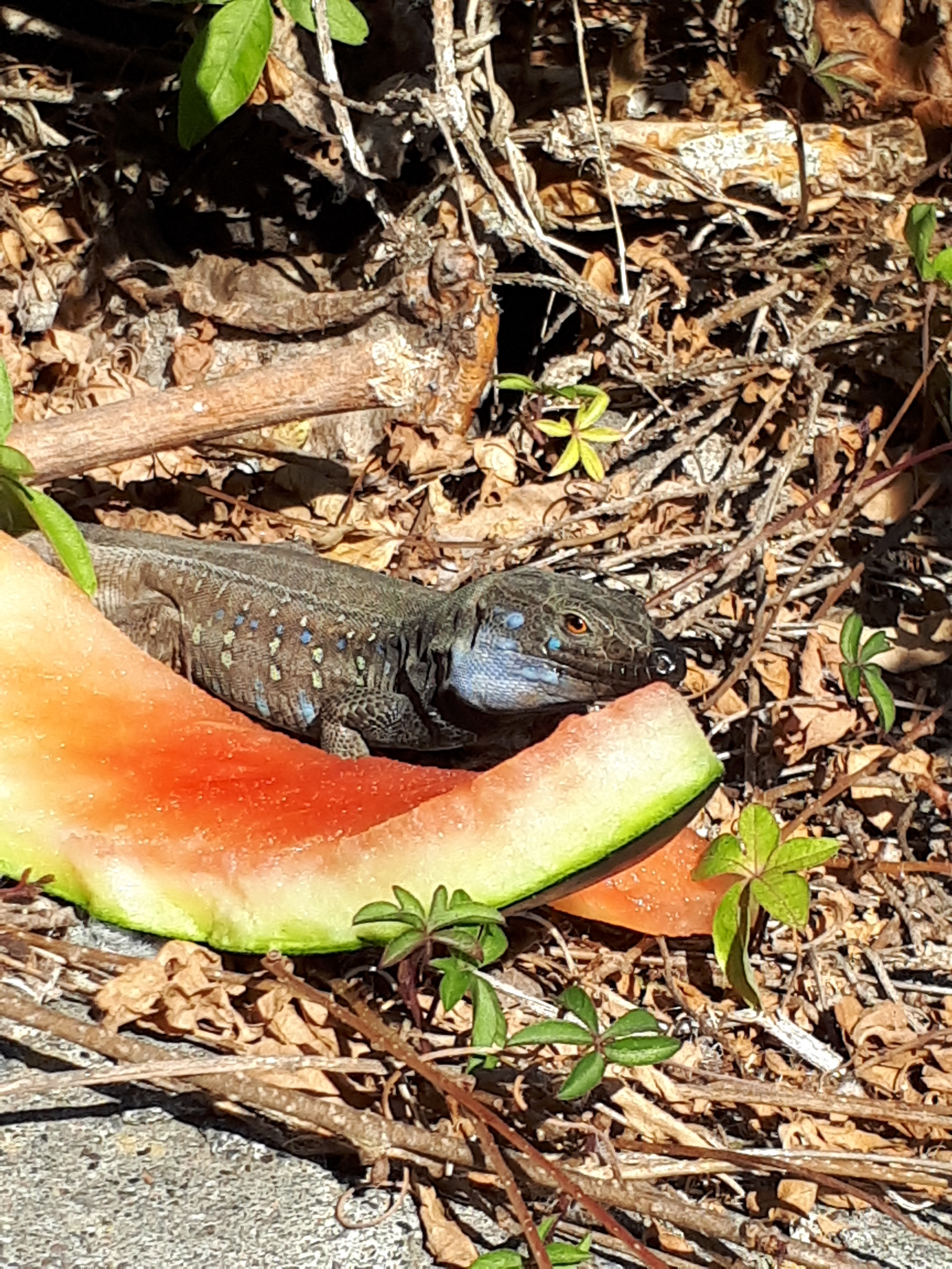 Gallotia galloti palmae